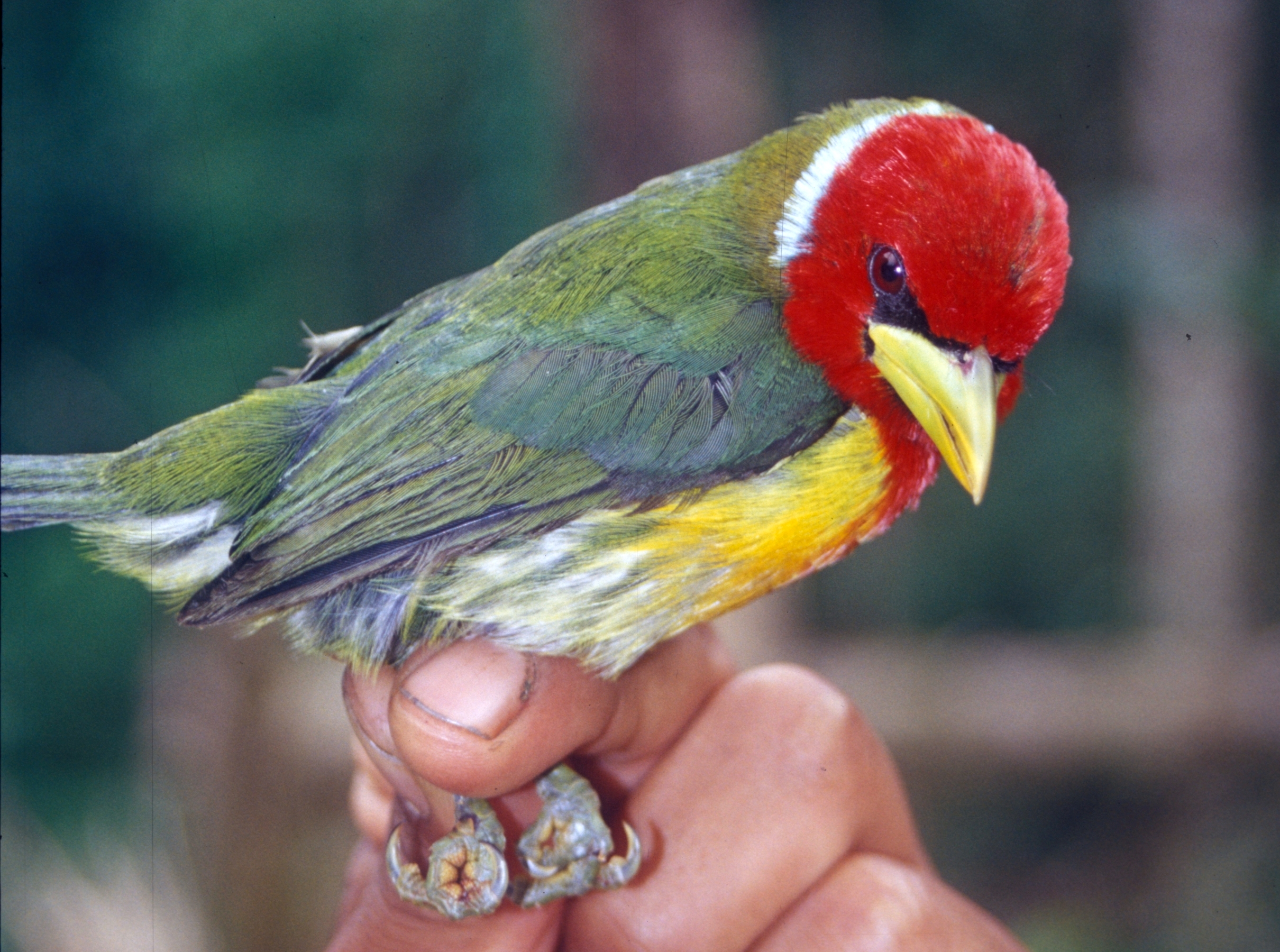 Male Red-headed Barbet (Eubucco bourcierii) in Ecuador